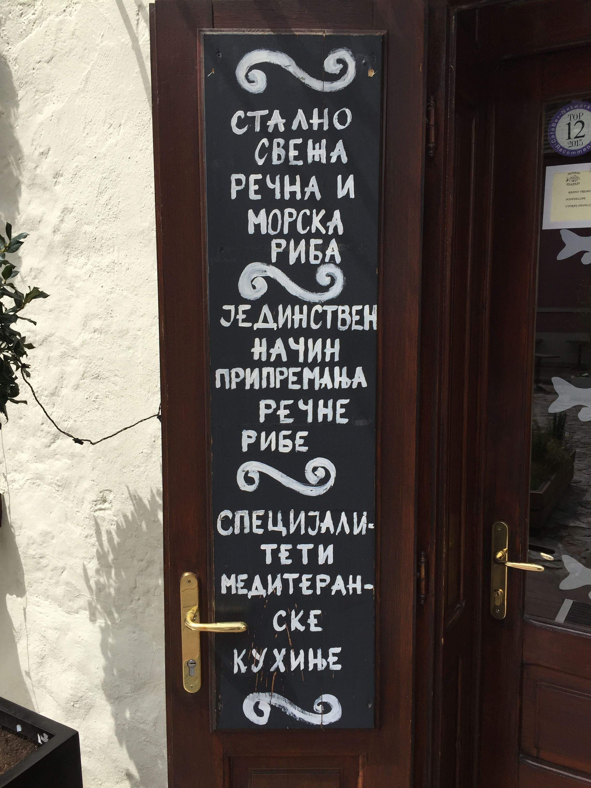 Restaurant Carp in Zemun, Serbia